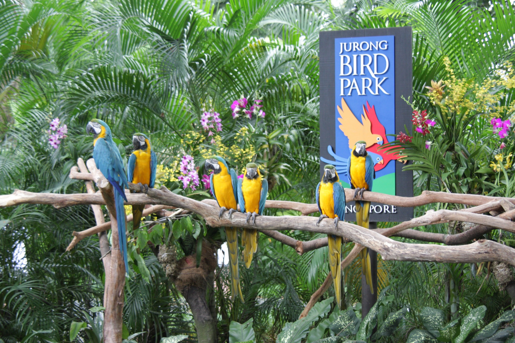 Blue-and-yellow Macaws perching on branches at Jurong Bird Park in front of one of the park's signs.